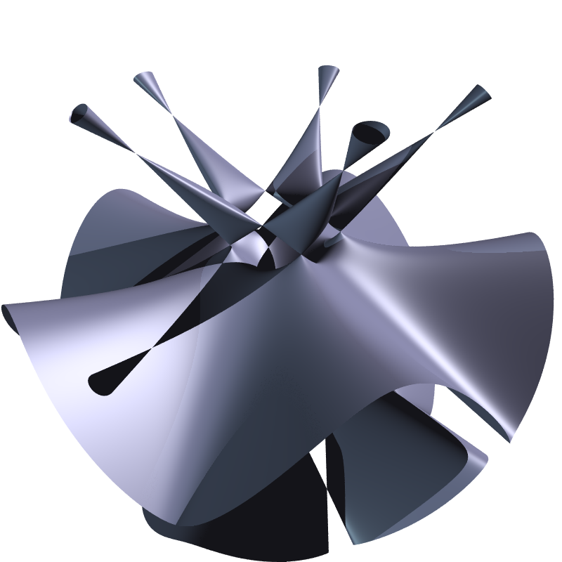 Togliatti Surface with w=1, bounded by a sphere with radius=6